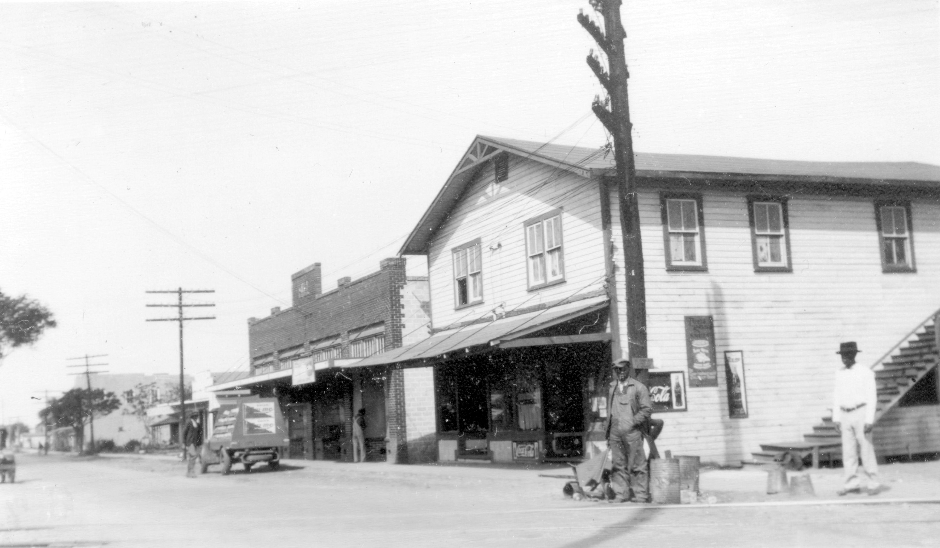 Goldsborough (Goldboro), Florida street scene, c.1930